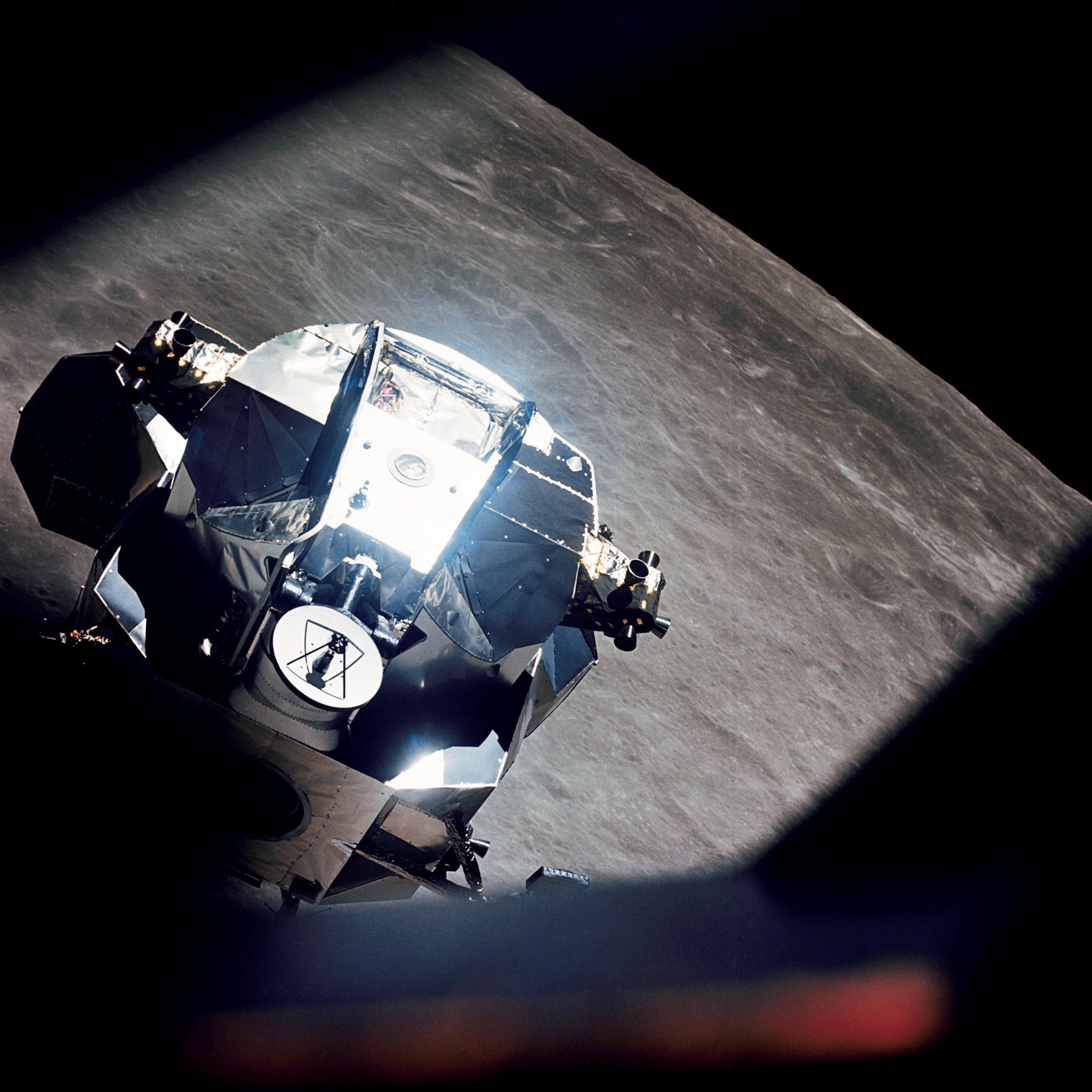 The Apollo 10 Lunar Module "Snoopy" rendezvous with the Command Module "Charlie Brown" after coming within 10 miles of the Moon's surface.